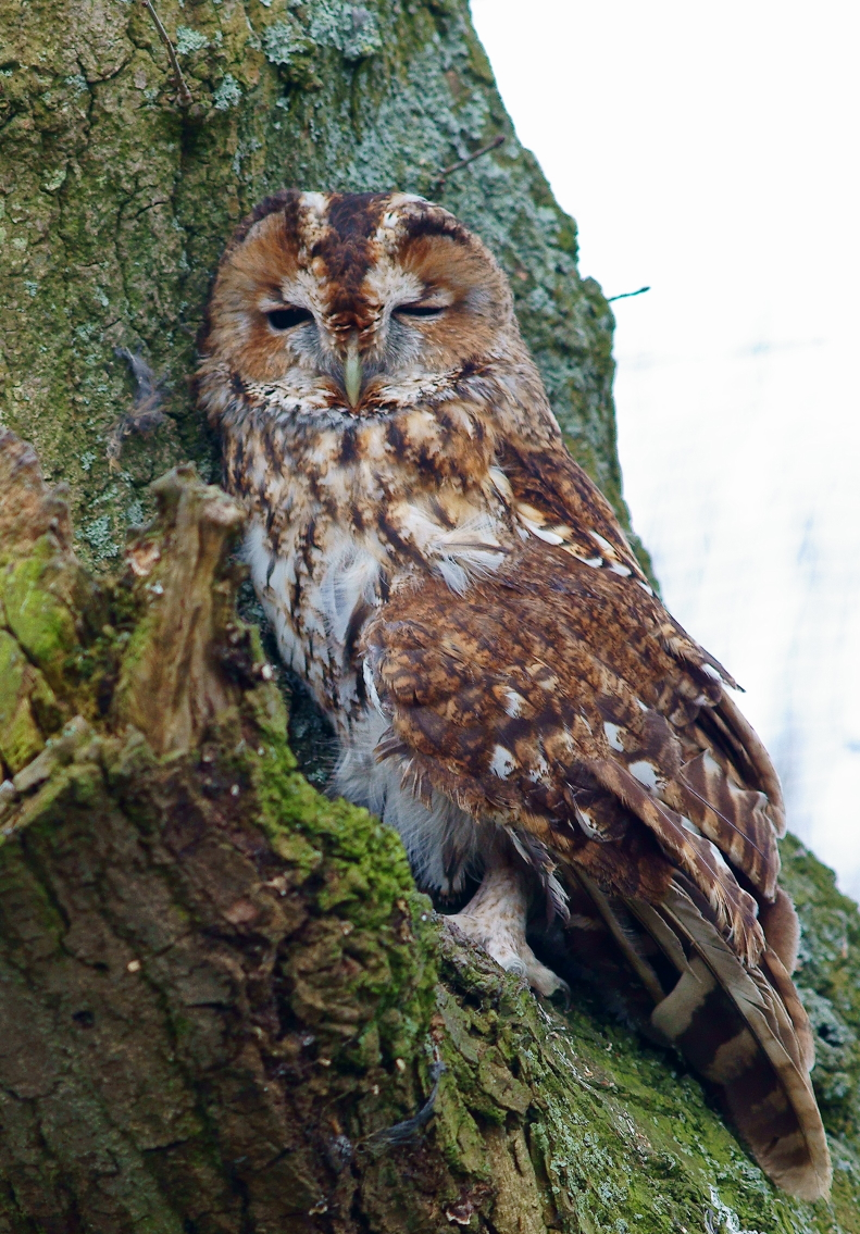 Seen at the British Wildlife Centre, Newchapel, Surrey. Tawny owl dozing in its tree.